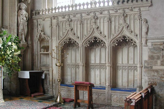 St Mary, Adderbury, Oxon - Piscina & sedilia